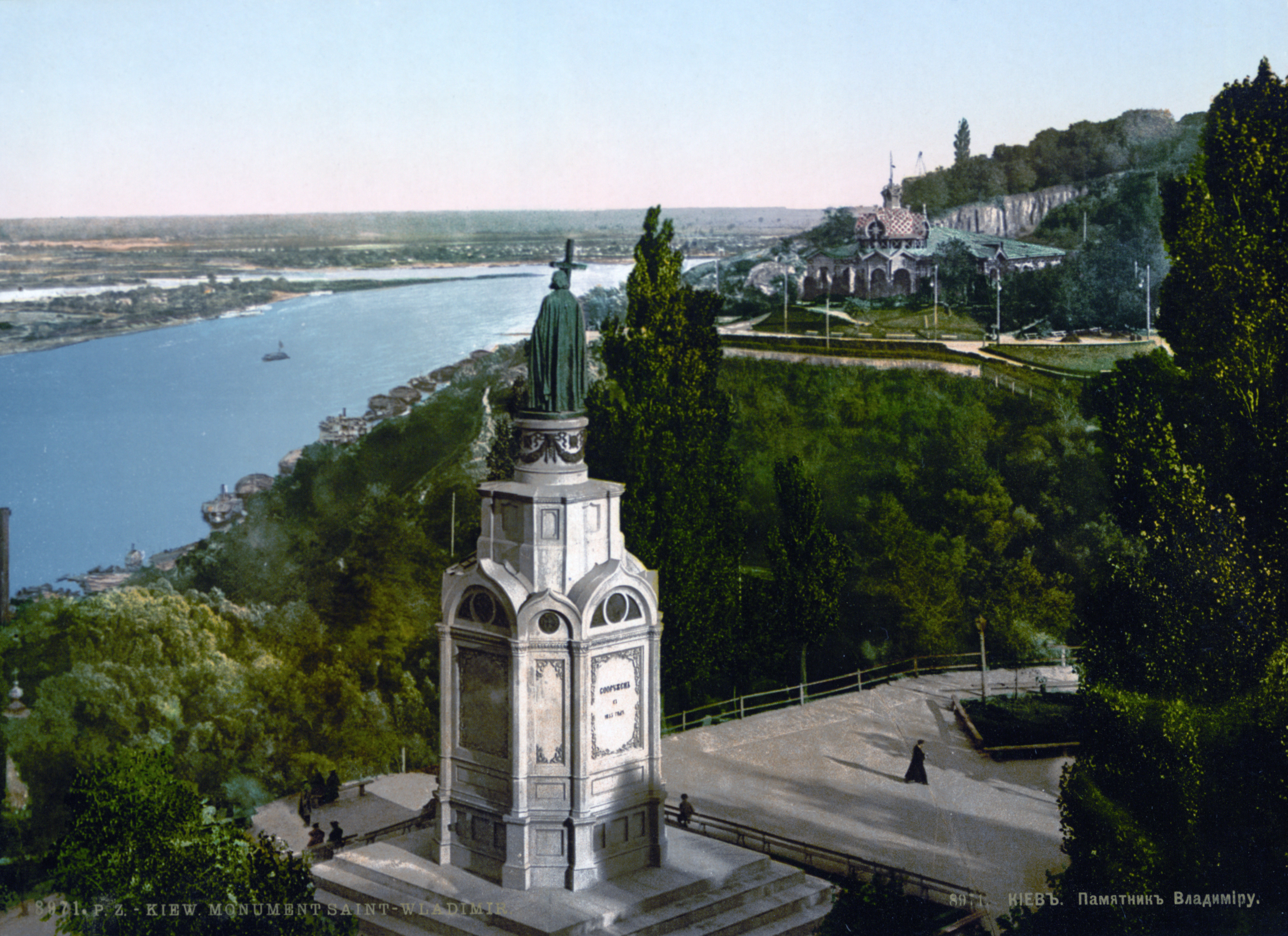 St. Wladimir's, (i.e., Vladimir's), Monument, Kiev, Russia, (i.e., Ukraine)